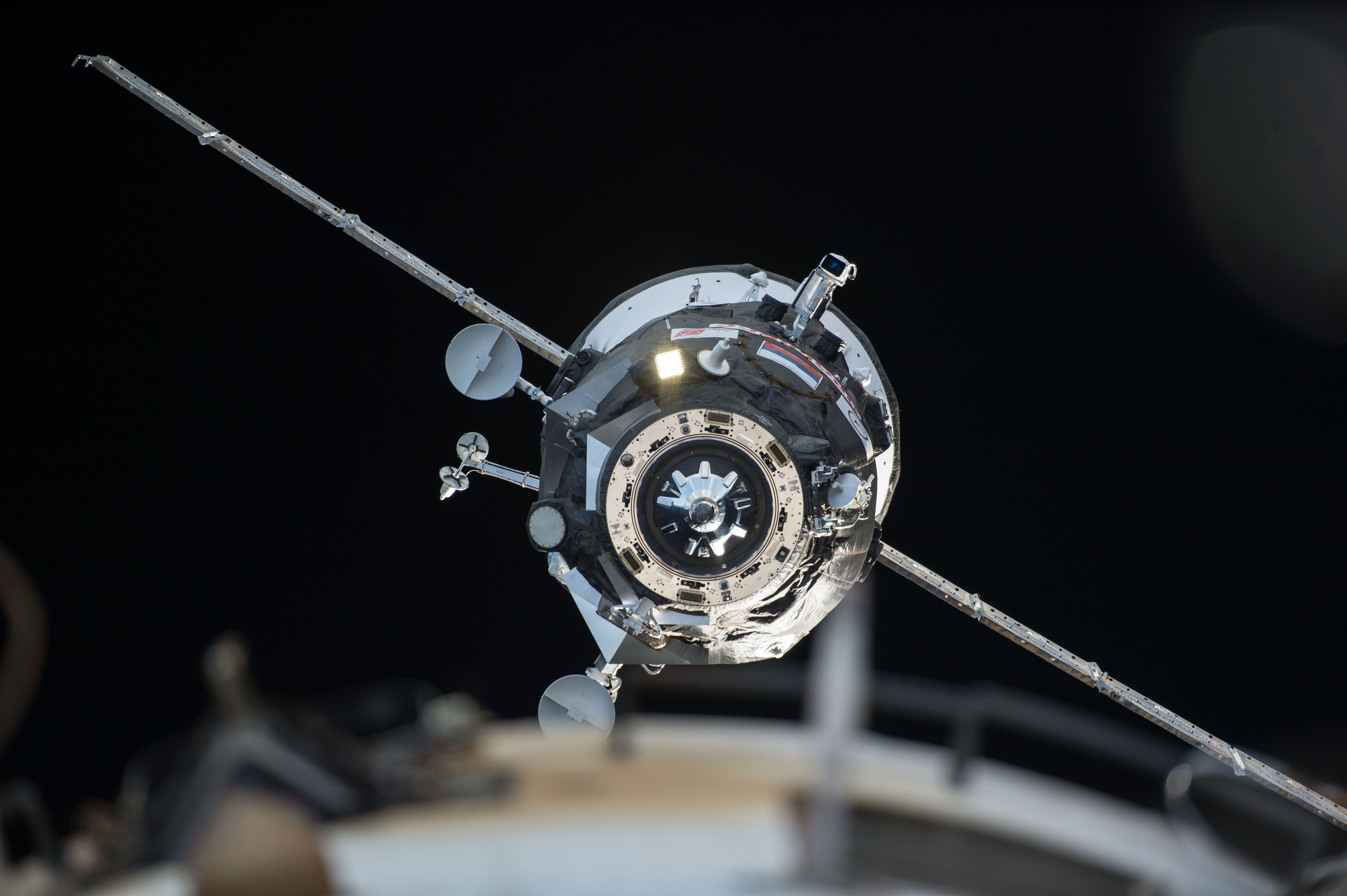 The Russian Progress 58 cargo craft pictured shortly before docking to the aft end of the Zvezda service module on the International Space Station.